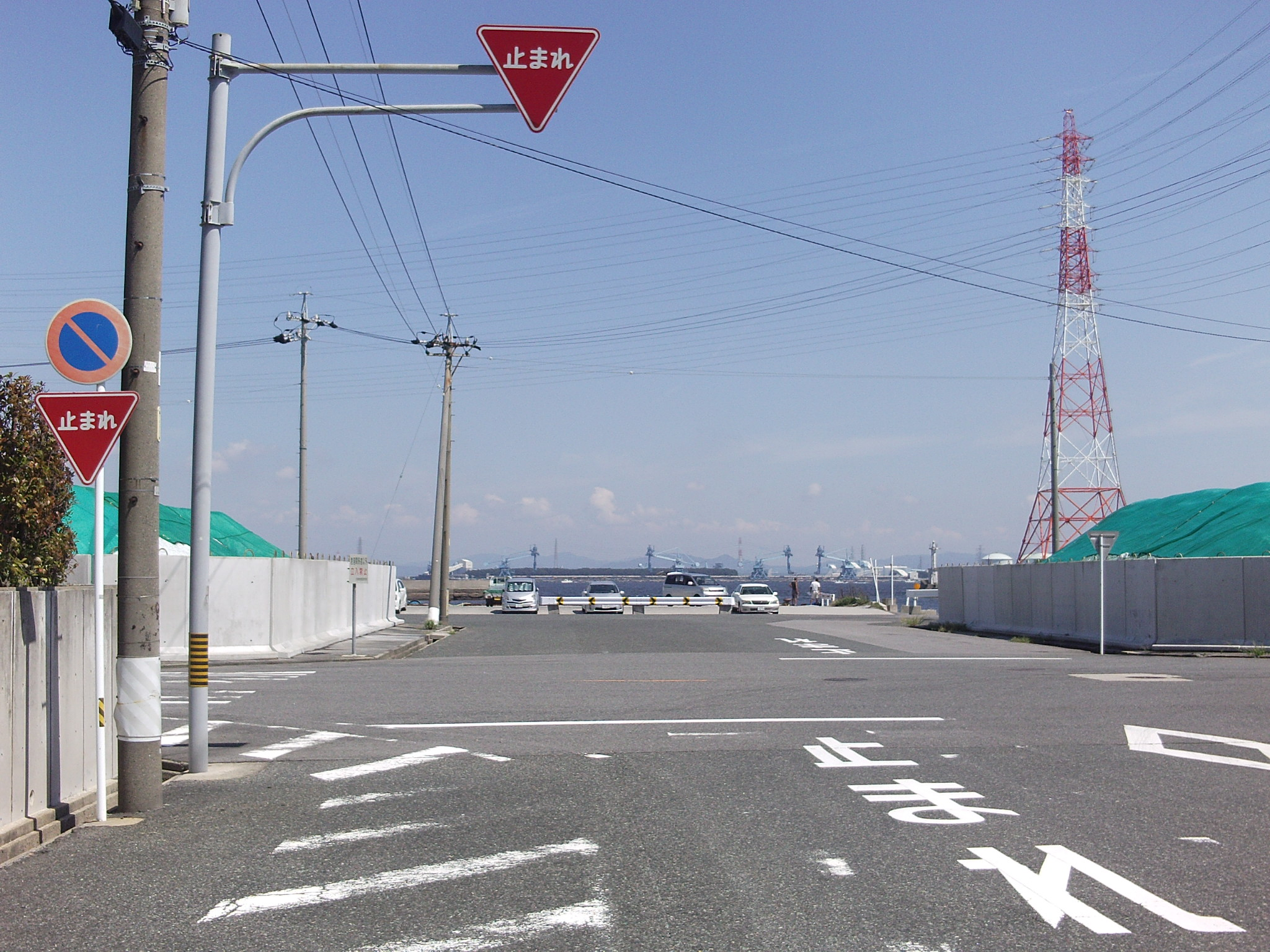 Aichi prefectural road No. in 1-gochi, Taketoyo-cho, Chita-gun, Aichi. Starting point, Taketoyo port.